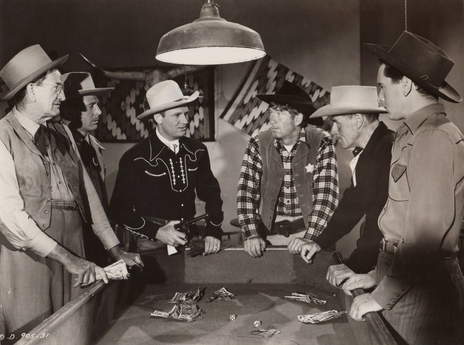 Left to right: Leon Weaver, Robert Shayne, Gene Autry, Chill Wills, Jack Holt, and Russell Arms in the American western film Loaded Pistols (1948) - publicity still (cropped : see source)